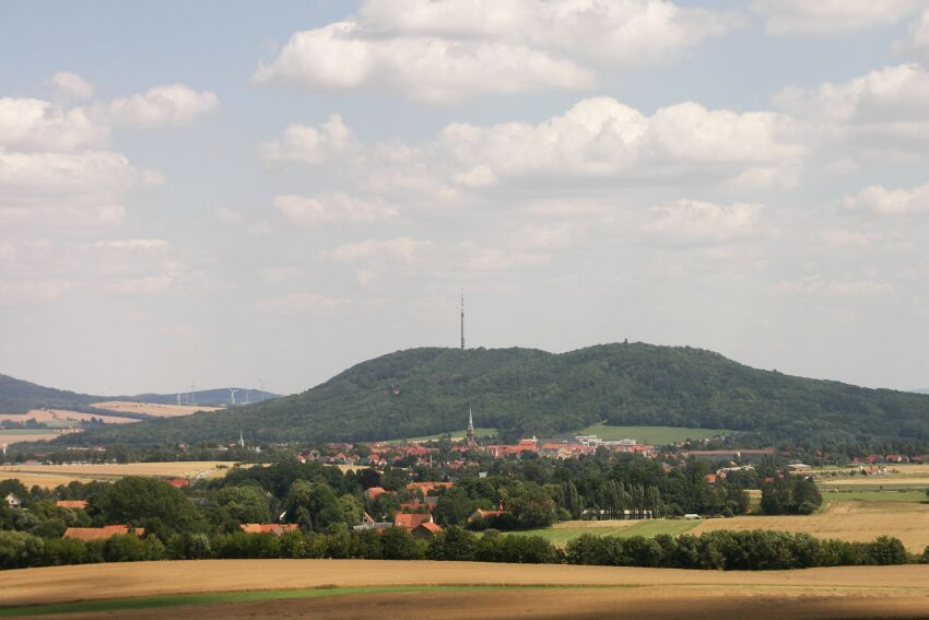 The town Löbau in front of the Löbau Mountain in Saxony, Germany.